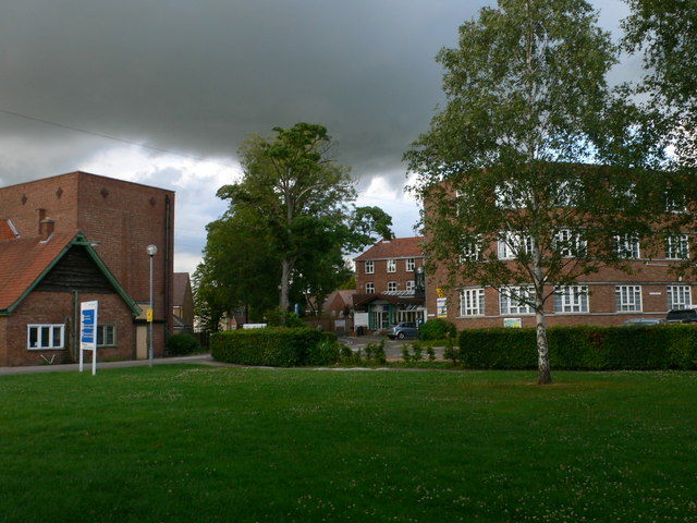 Hospital, Papworth Everard